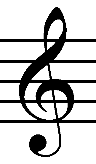 G Clef